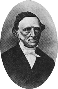 Christen Heiberg (1799-1852), norwegian physician and professor of medicine at Oslo University